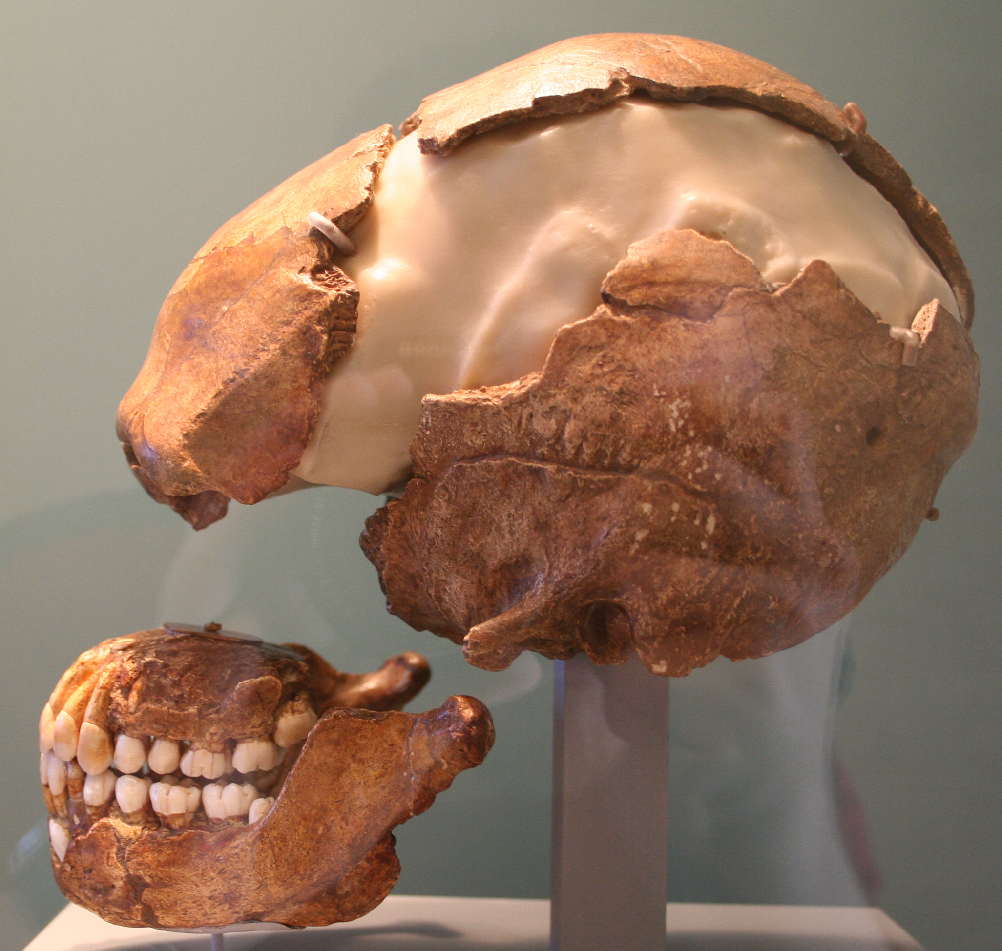 Cranium of Homo Neanderthalensis. Found at Le Moustier. Ca. 45.000 BC. Museum für Vor- und Frühgeschichte (Museum of prehistory and early history), Berlin.